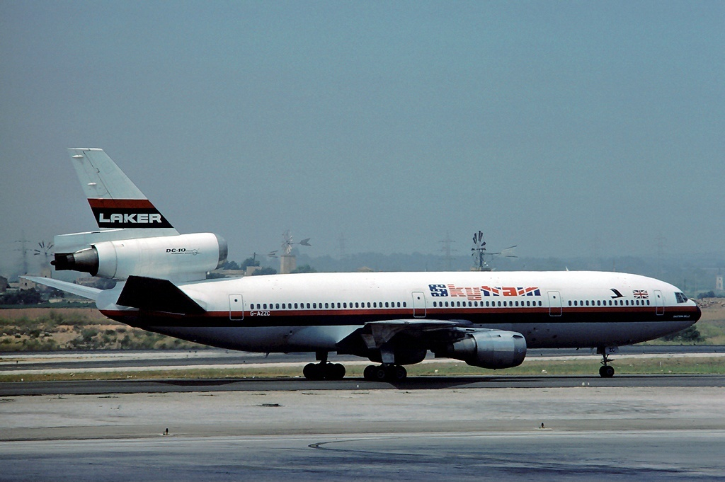 Laker Airways Douglas DC-10-10 G-AZZC at Palma de Mallorca Airport